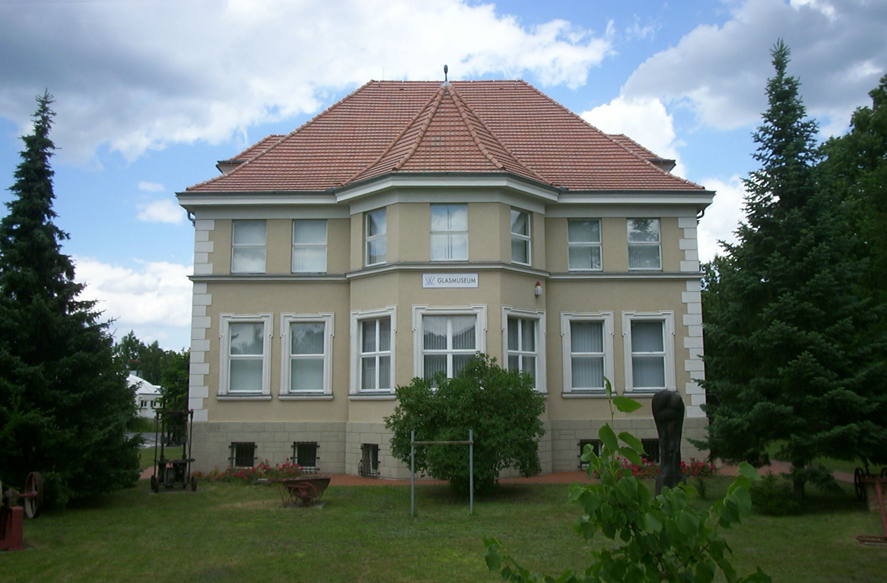 Glass Museum in Weißwasser, Website Map: 51° 30′ 25″ N, 14° 38′ 4″ E